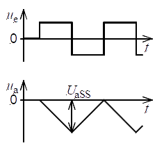 Zeitlicher Verlauf einer Rechteckspannung und deren Integral